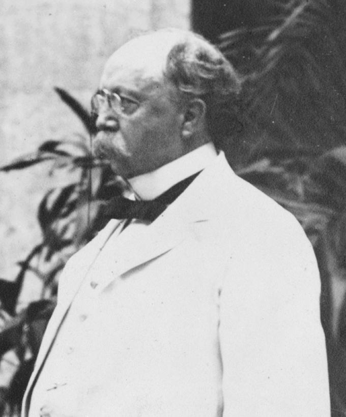 U.S. Philippine commissioners General Henry Clay Ide.